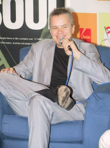 Robbins Tim at Cannes in 2001. My own picture. Created by Rita Molnár 2001.